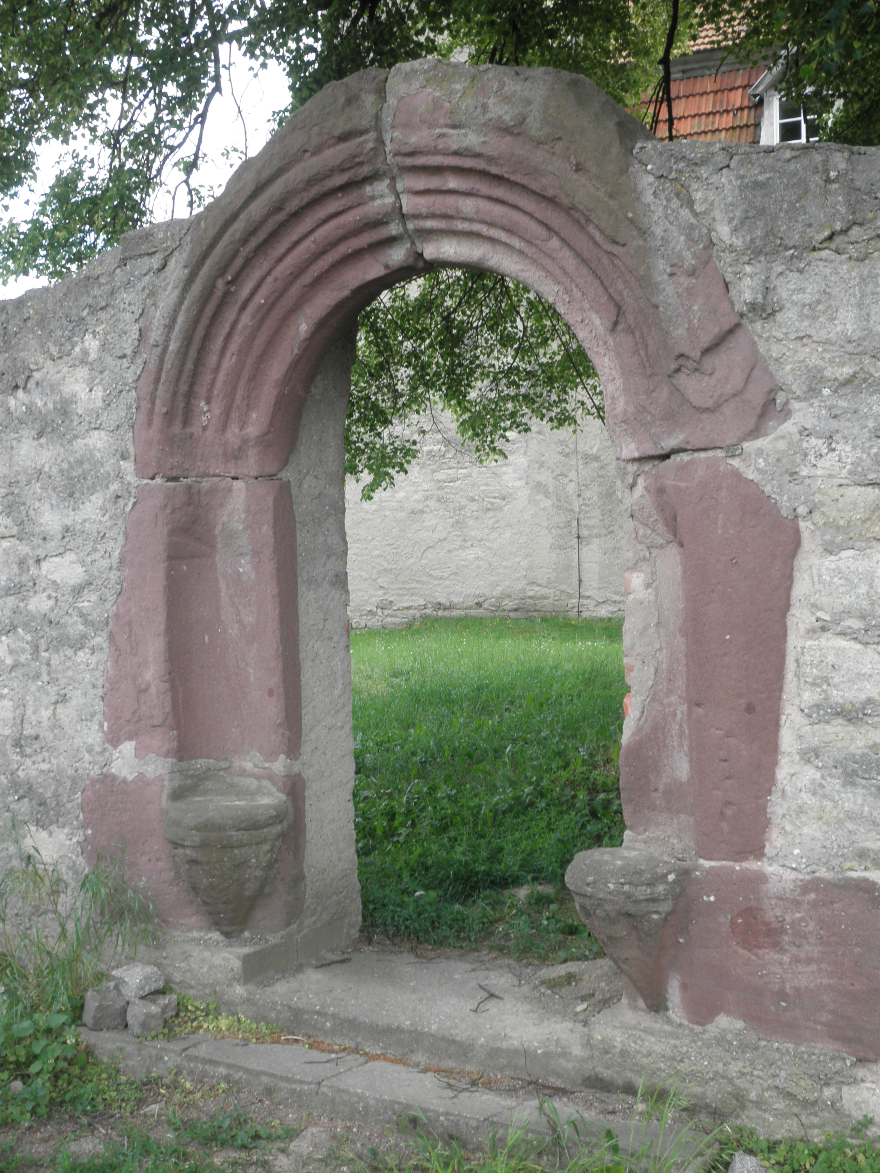 Archway in Westerengel in Thuringia